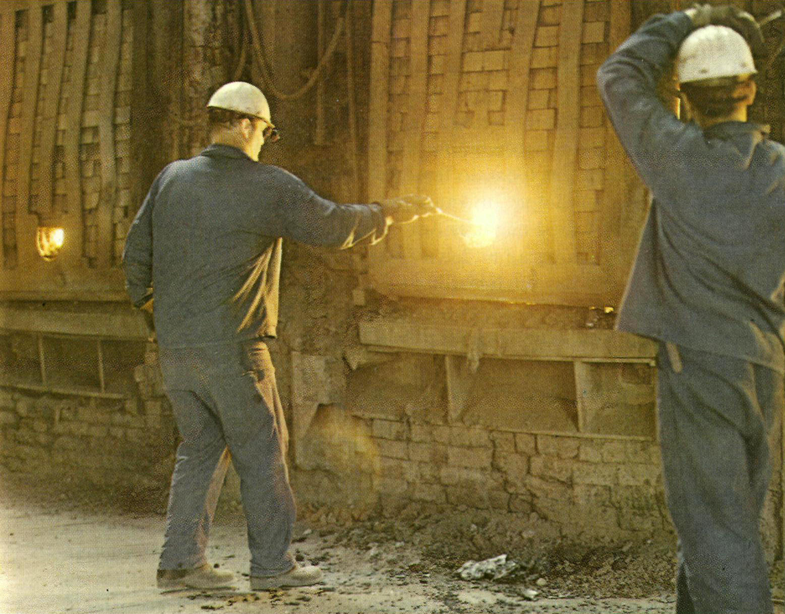 Taking of specimens in a Siemens regenerative furnace in Fagersta ironworks.